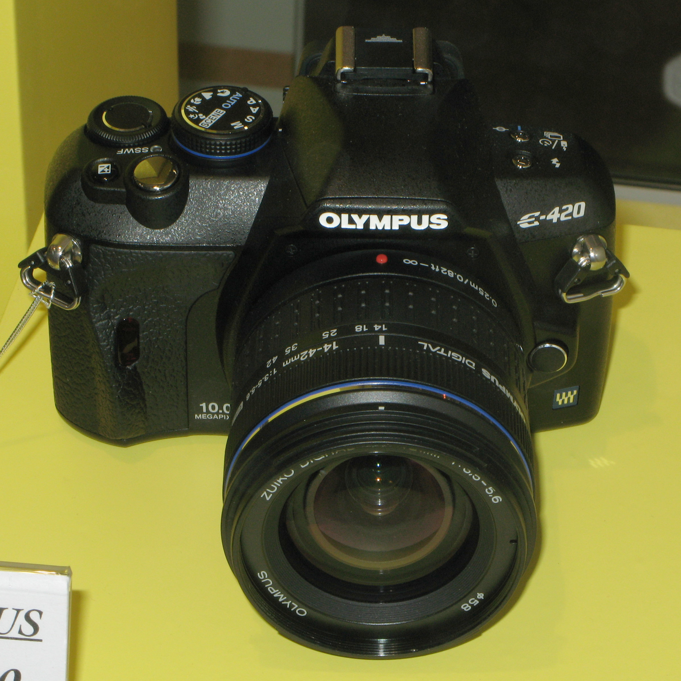 Olympus E-420